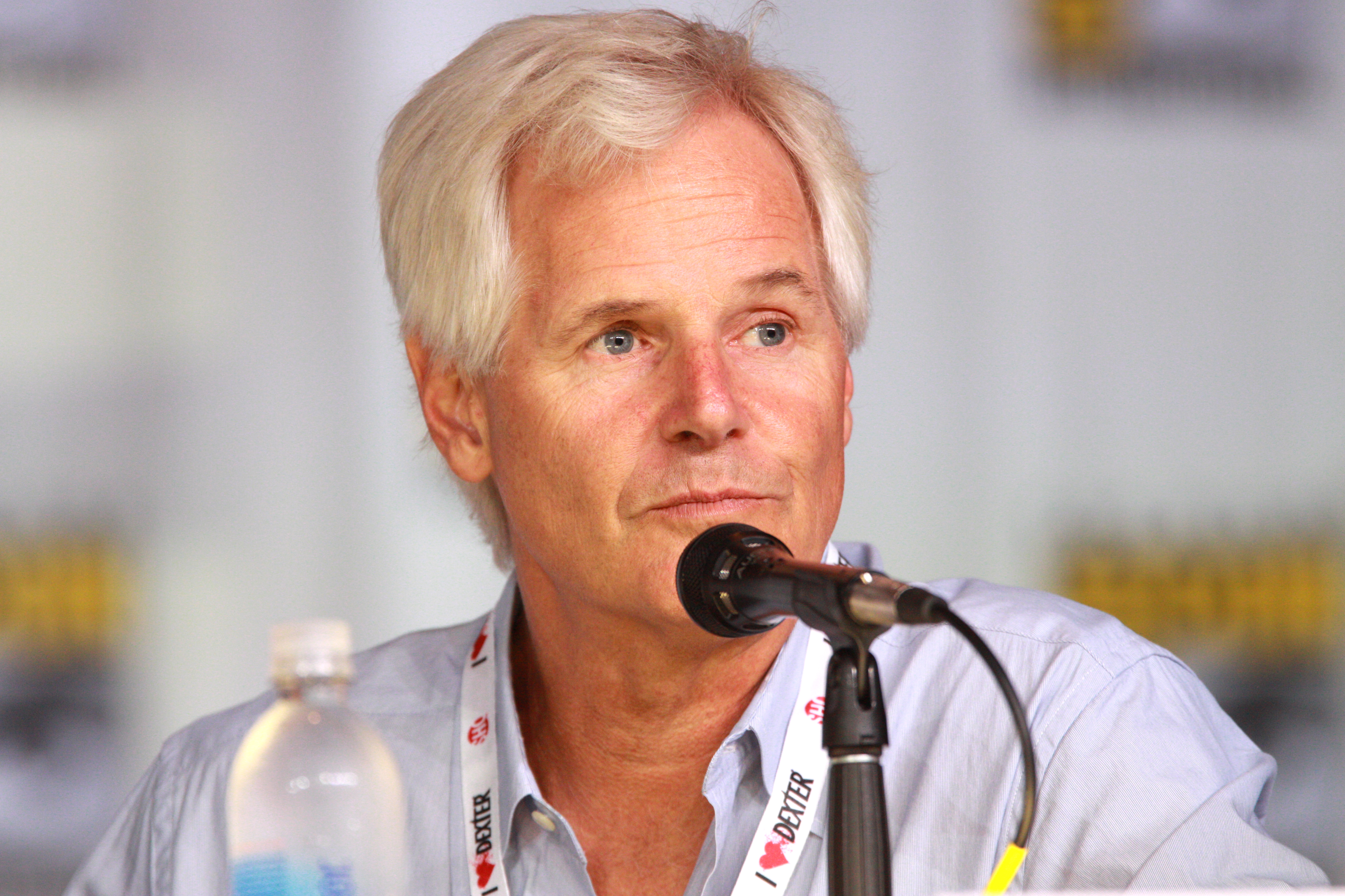 Chris Carter speaking at the 2013 San Diego Comic Con International, for "The X-Files" 20th Anniversary panel, at the San Diego Convention Center in San Diego, California.